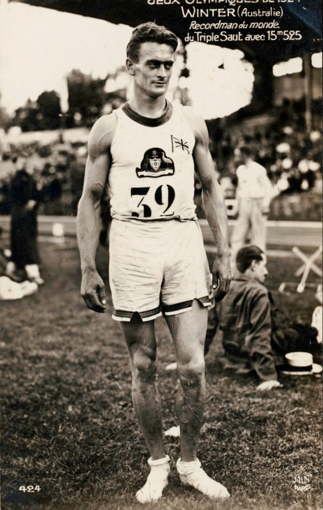 Part of collection: Jeux Olympiques de 1924.; Official postcrd no. 424.; Also available in an electronic version via the Internet at: .au/nla.pic-vn3098002. Anthony 'Nick' Winter won a gold medal in the triple jump, setting a world record in the process. Persistent URL .au/nla.pic-vn3098002